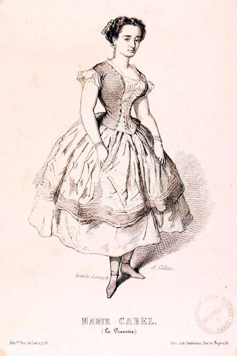 Marie Cabel as Marie in Louis Clapisson's opera La promise, a role she created on 16 March 1854 at the Théâtre Lyrique in Paris